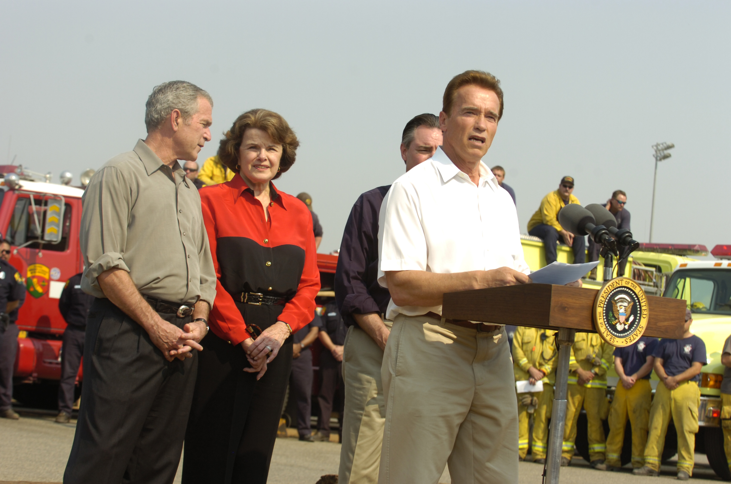 California Gov. Arnold Schwarzenegger introduces President George W. Bush and U.S. Sen. Dianne Feinstein (D.-Calif.) at Kit Carson Park in Escondido, Calif., during an Oct. 25, 2007, visit to wildfires. "The contribution of the National Guard is a five-star," Feinstein later said. "You've always responded, you've always responded professionally, and you've always responded with great compassion and dedication, and I'm really grateful for the National Guard." More than 1,500 National Guard Citizen-Soldiers and Airmen are assisting civilian authorities with firefighting efforts. (U.S. Army photo by Staff Sgt. Jim Greenhill) (Released)